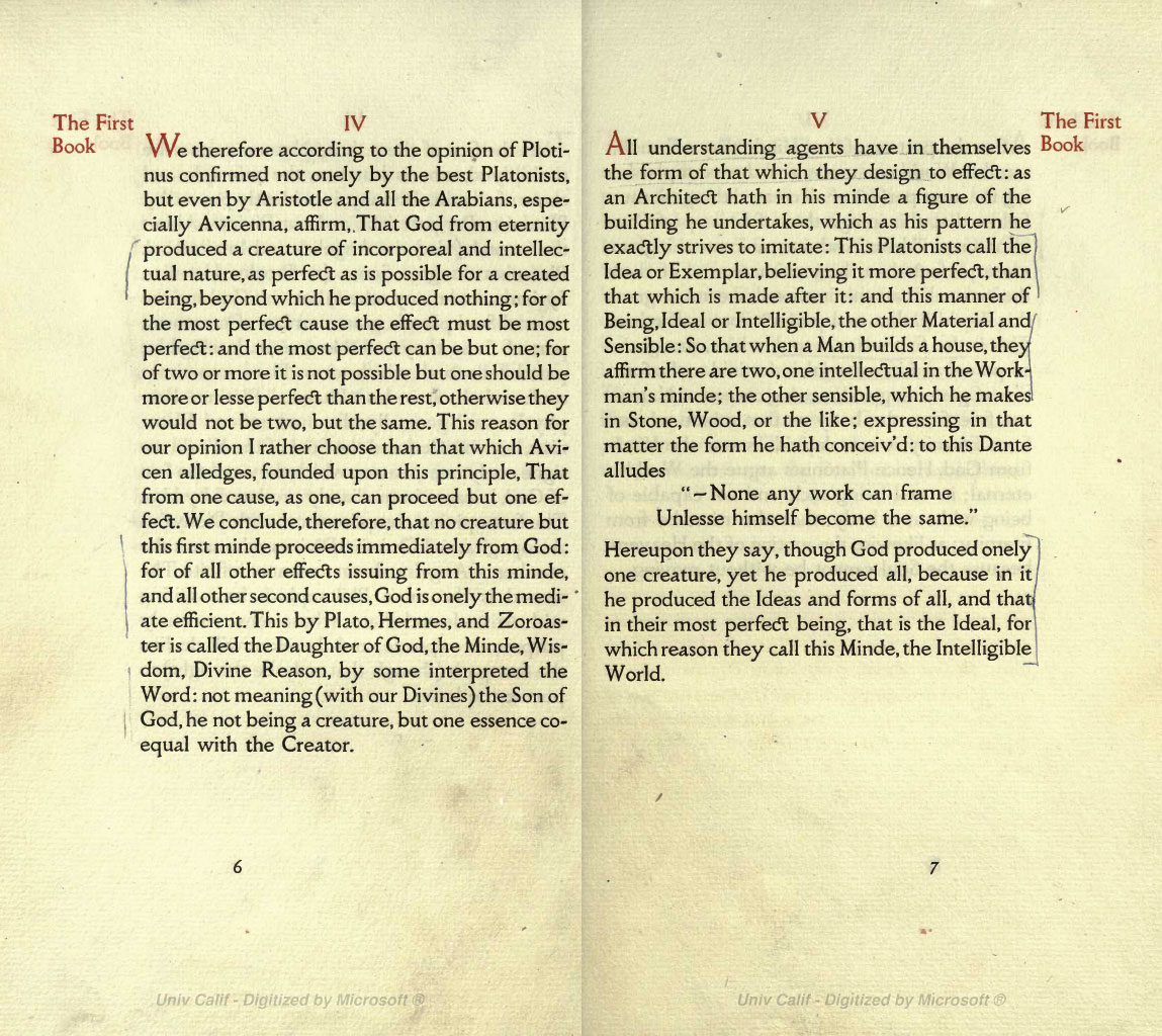 Spread from "The Platonick Discourse" by Pico della Mirandola printed by Merrymount Press about 1914.